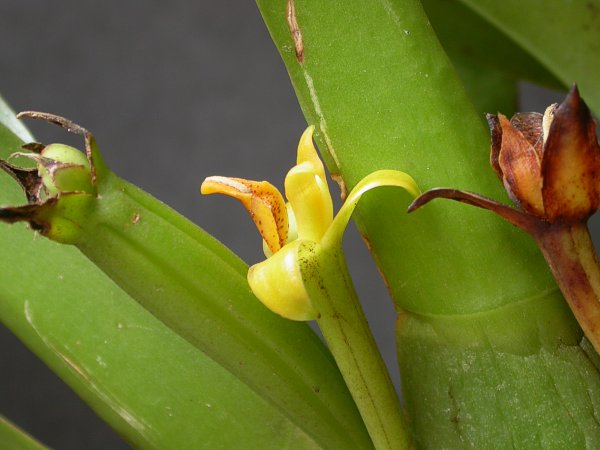 Heterotaxis crassifolia